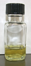 A solution of Lysergic acid diethylamide (a.k.a. LSD), seized by US authorities. ( cropped a bit by User:MER-C)